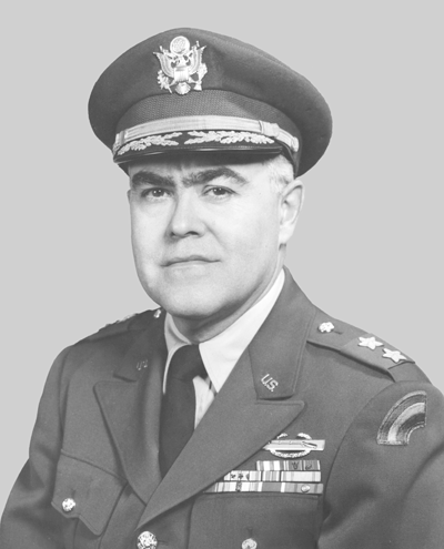 Official US Army Photo of Martin Foery as Major General